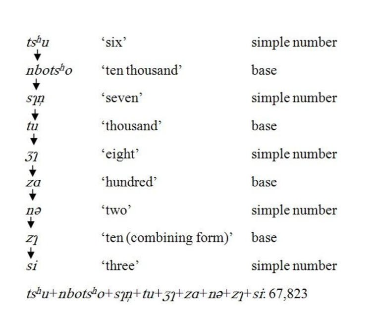 the method of creating a large compound number in ersu